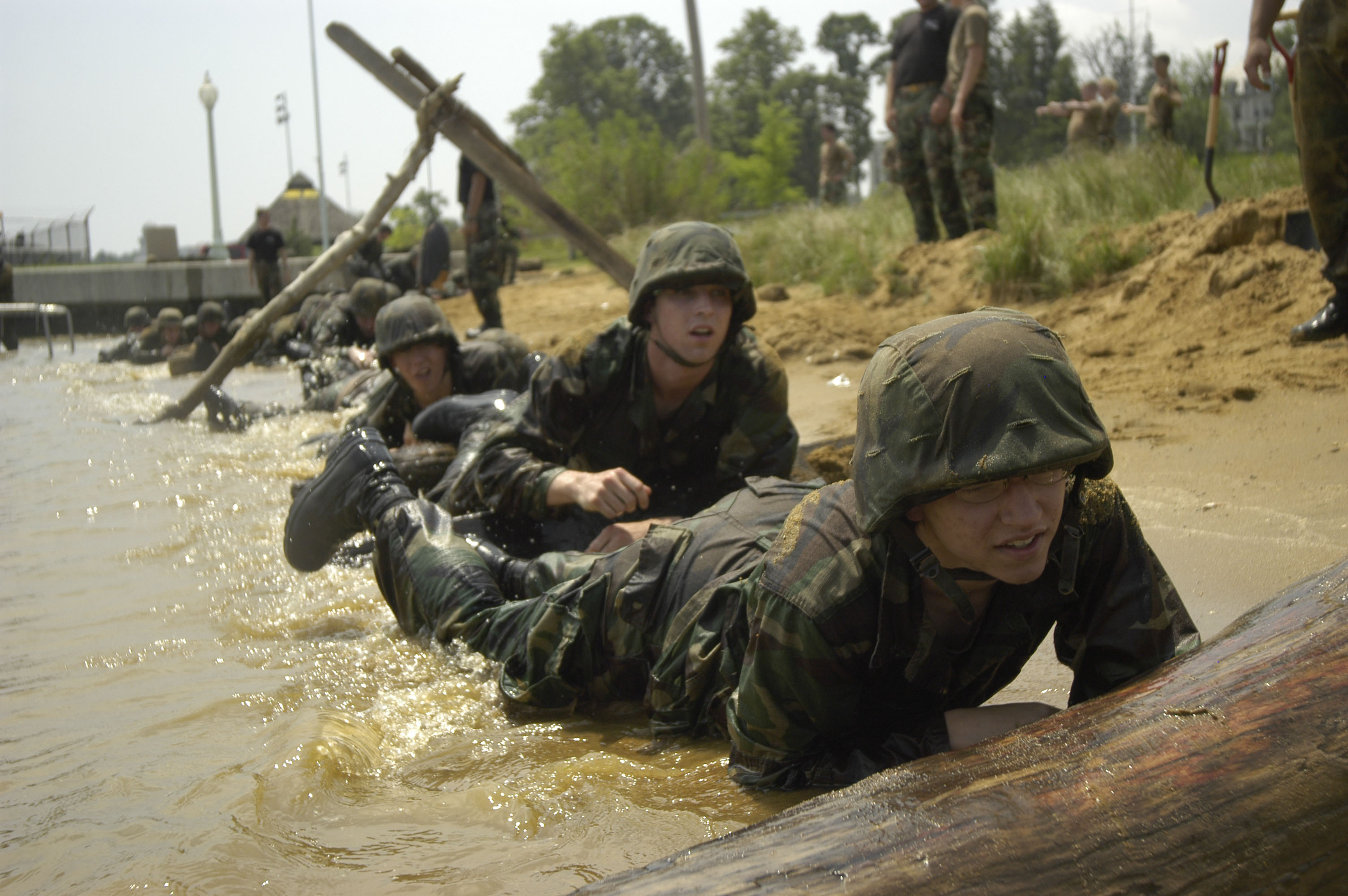 U.S. Naval Academy (May 18, 2004) - Midshipmen crawl along a beach through obstacles as part of Sea Trials. The "capstone" event places fourth-class midshipmen in a physically and mentally demanding environment that instills in them the values of good leadership, teamwork, and perseverance. Sea Trials allows the fourth class to participate in a memorable and worthwhile event that teaches them much about their own abilities and limitations as well as the advantages of working as a team. U.S. Navy photo by Photographer's Mate 2nd Class Damon J. Moritz. (RELEASED)